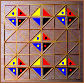 VERSO RECTO GAME